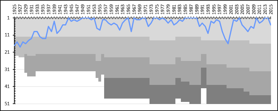 A chart showing the progress of Malmö FF through the swedish football league system. The different shades of gray represent league divisions.